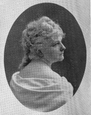 Rosa Vertner Griffith Johnson Jeffrey (1828-1894); poet, novelist; from Natchez, Mississippi.